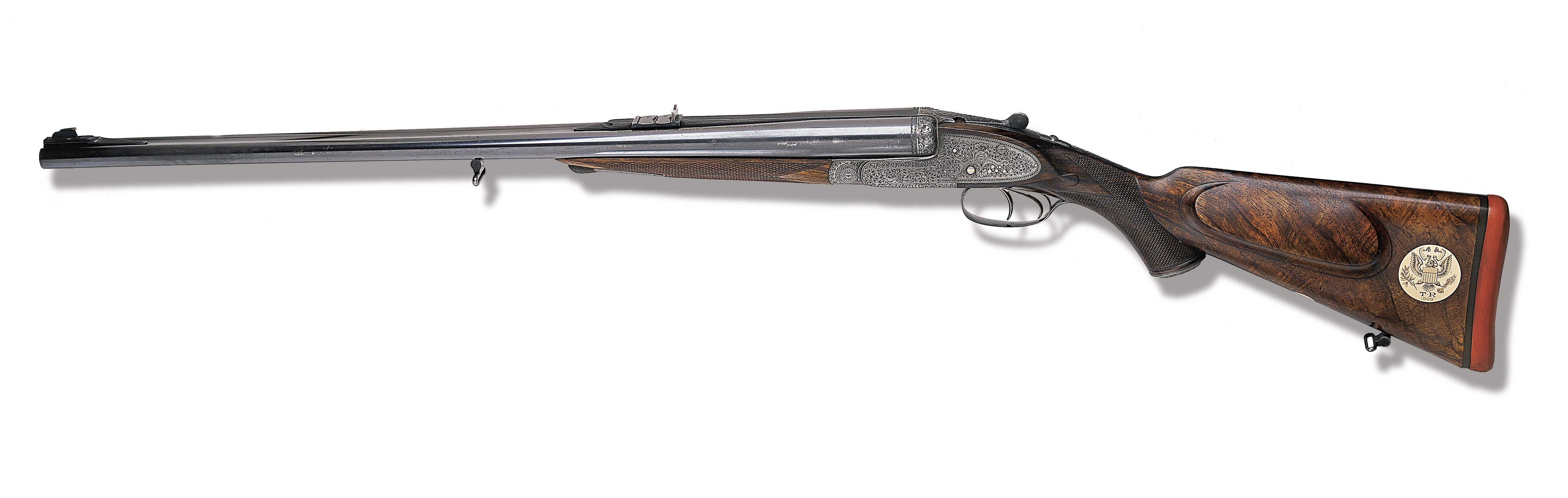 Holland & Holland, Ltd. (1835-present). Royal Grade Double Rifle with Case and Accessories, Presented to Theodore Roosevelt, 1909. English (London). (Rifle) Engraved, blue and case-colored steel; gold; walnut (case and accessories) oak; leather; various media. .500/.450 Nitro Express caliber. Serial number: 19109. Length (rifle only) 42 3/4". Frazier History Museum Collection.